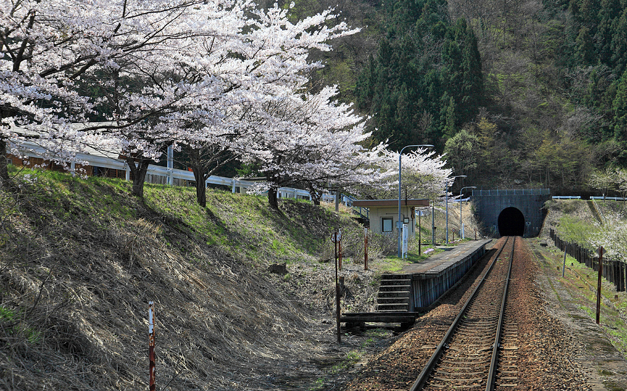 Aizu Railway Ōkawa-Dam-Kōen Station